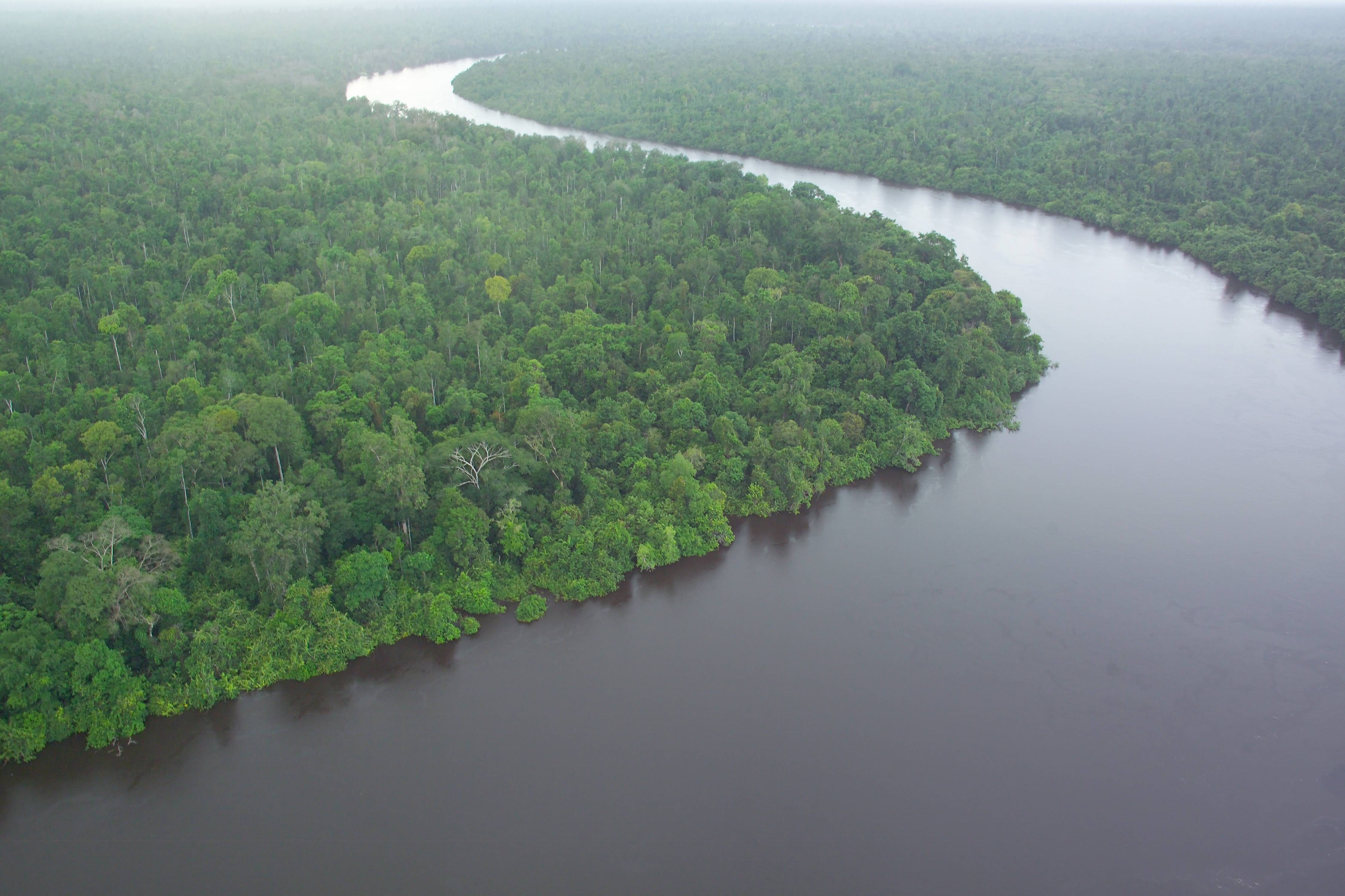 Natural ecosystems provide essential ecological services including clean air, water and biodiversity. Peat swamp forest, Kalimantan, Indonesia.